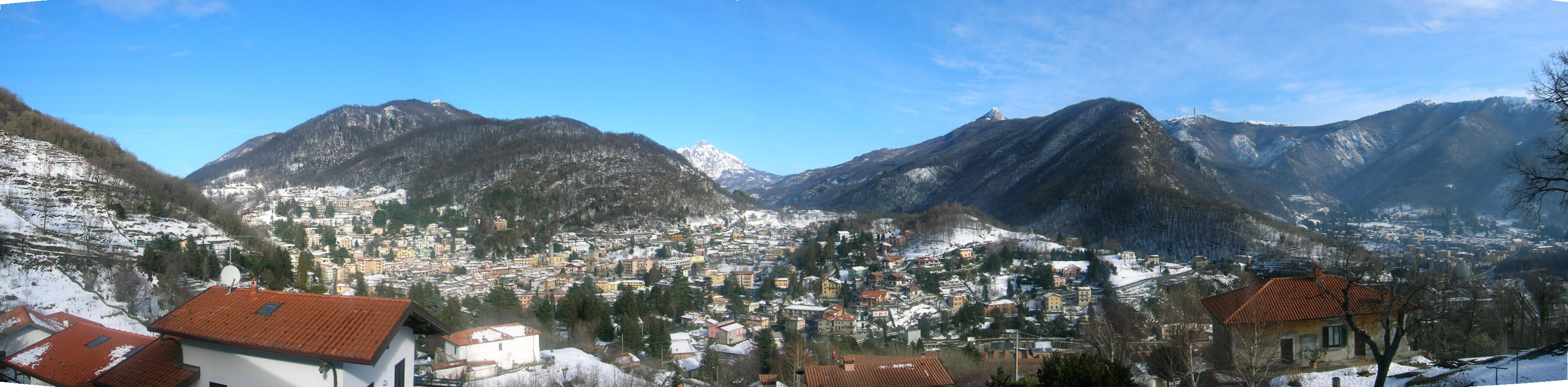 Asso in winter